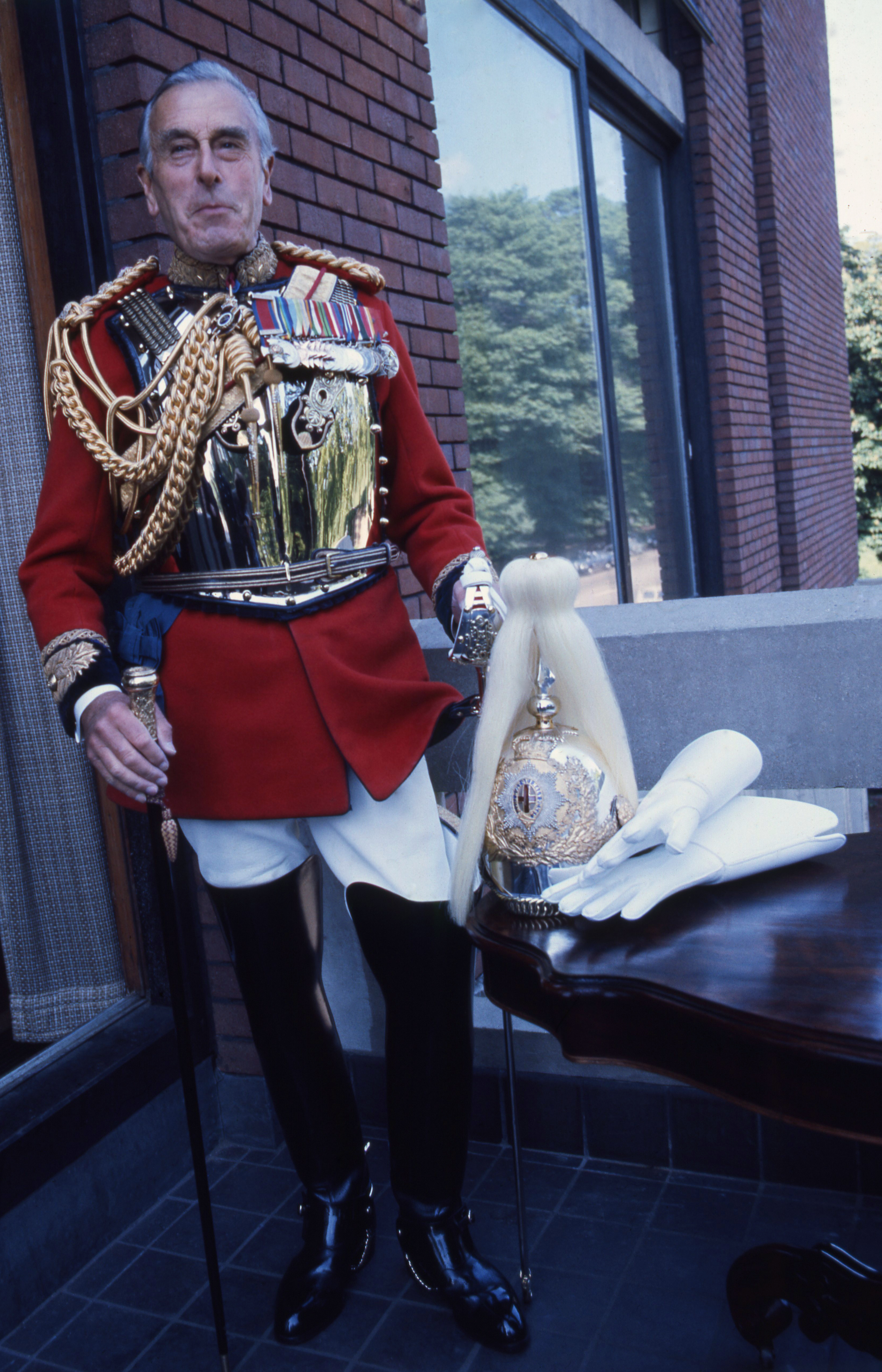 Earl Mountbatten of Burma in uniform as colonel in chief of The Household Cavalry